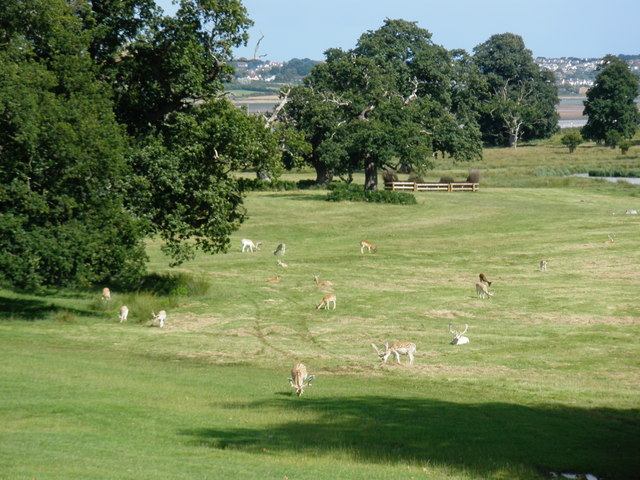 Deer park, Powderham Castle Supports approximately 600 Fallow deer.